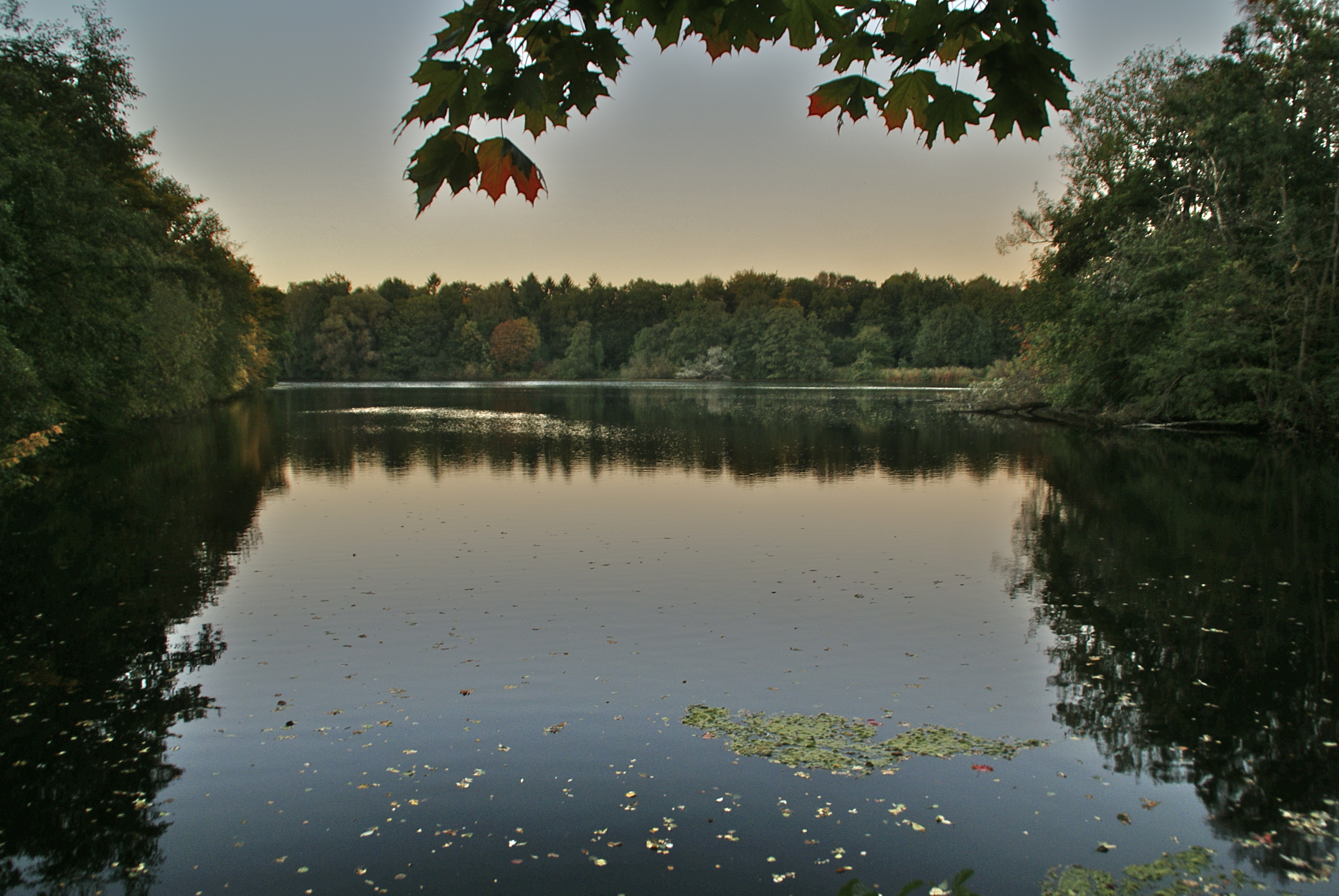 Hamburg (Germany): The Bramfelder See in autumn 2010